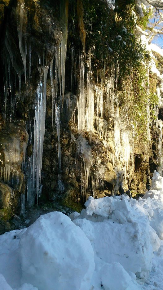 ზესოფელი, ჩანქერი